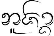 Lanna script – Phu Sang is a district (Amphoe) of Phayao Province in northern Thailand.